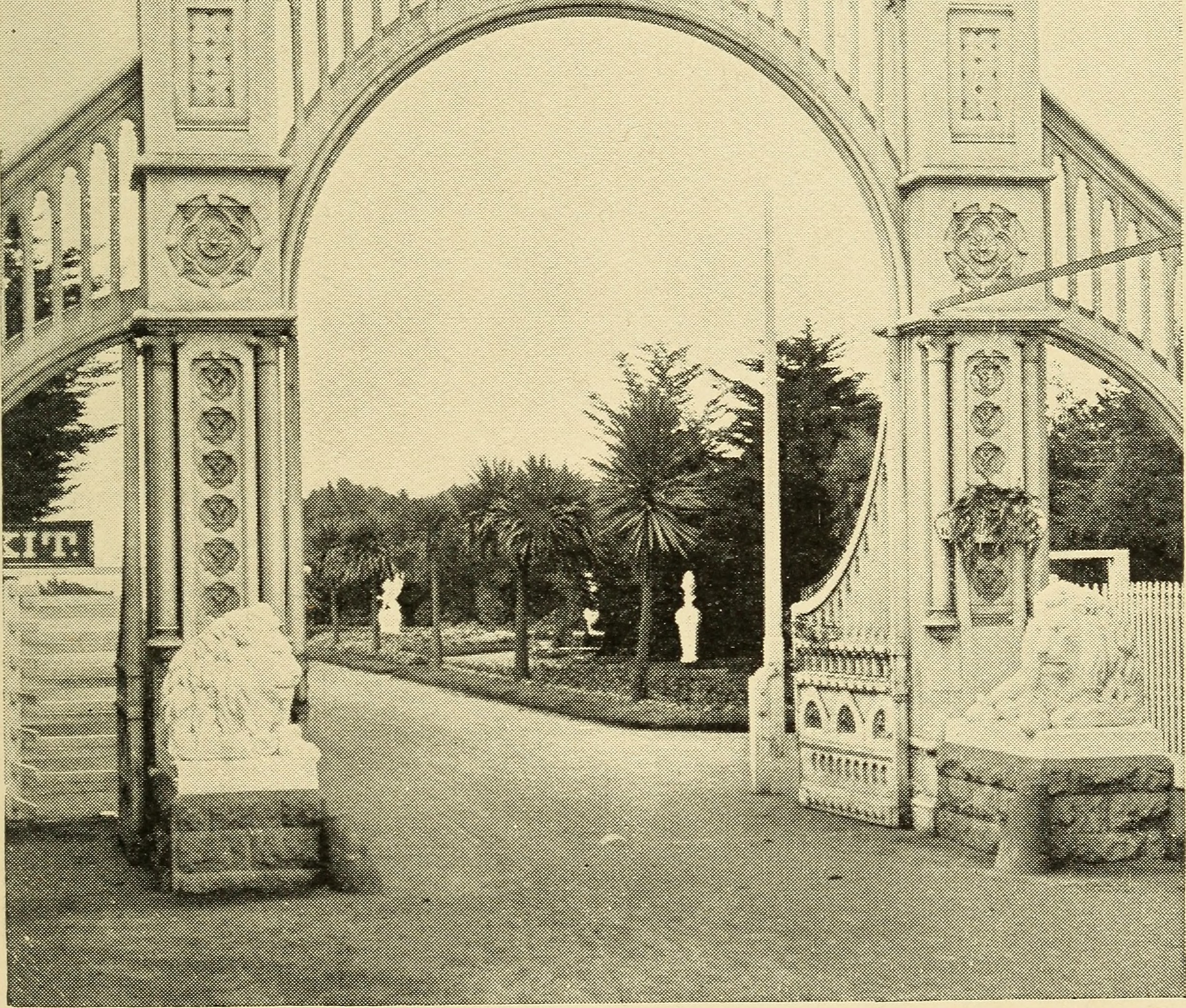 Title: Adolph Sutro Year: 1895 (1890s) Authors: Holmes, Eugenia Kellogg, Mrs. (from old catalog) Subjects: Sutro, Adolph, 1830-1898 Publisher: San Francisco, Press of San Francisco photo-engraving co. Text Appearing Before Image: celebrated sculpture, transpor-ted with great care from European capitals. The residence, quaint and unique, is gemmedwith speaking souvenirs of Mr. Sutros many toursin every accessible part of the world, each an ex-pression of taste, intelligence and appreciation forthe best in human skill. The rich, the cultivated and traveled find there,environments of harmony, while the poor are notpained by ostentation nor cankering contrasts. Among the visitors entertained at the white-towered cottage on the cliff, may be mentioned theNotables of all nations, friends, kindred andacquaintances—representative of every class, forthis famous sea-park is closed to none. The mailed knights at the gates are hospitable.The snowy-lipped lions at the lodge are locked inreposeful slumber. Mr: Sutro has said in public print — San Fran-cisco has a hoodlum and criminal class, but whenthe members of this class have visited the Heights they have always behaved themselves, proving — 32 — j& ,■:■ Text Appearing After Image: ENTRANCE SUTRO HEIGHTS